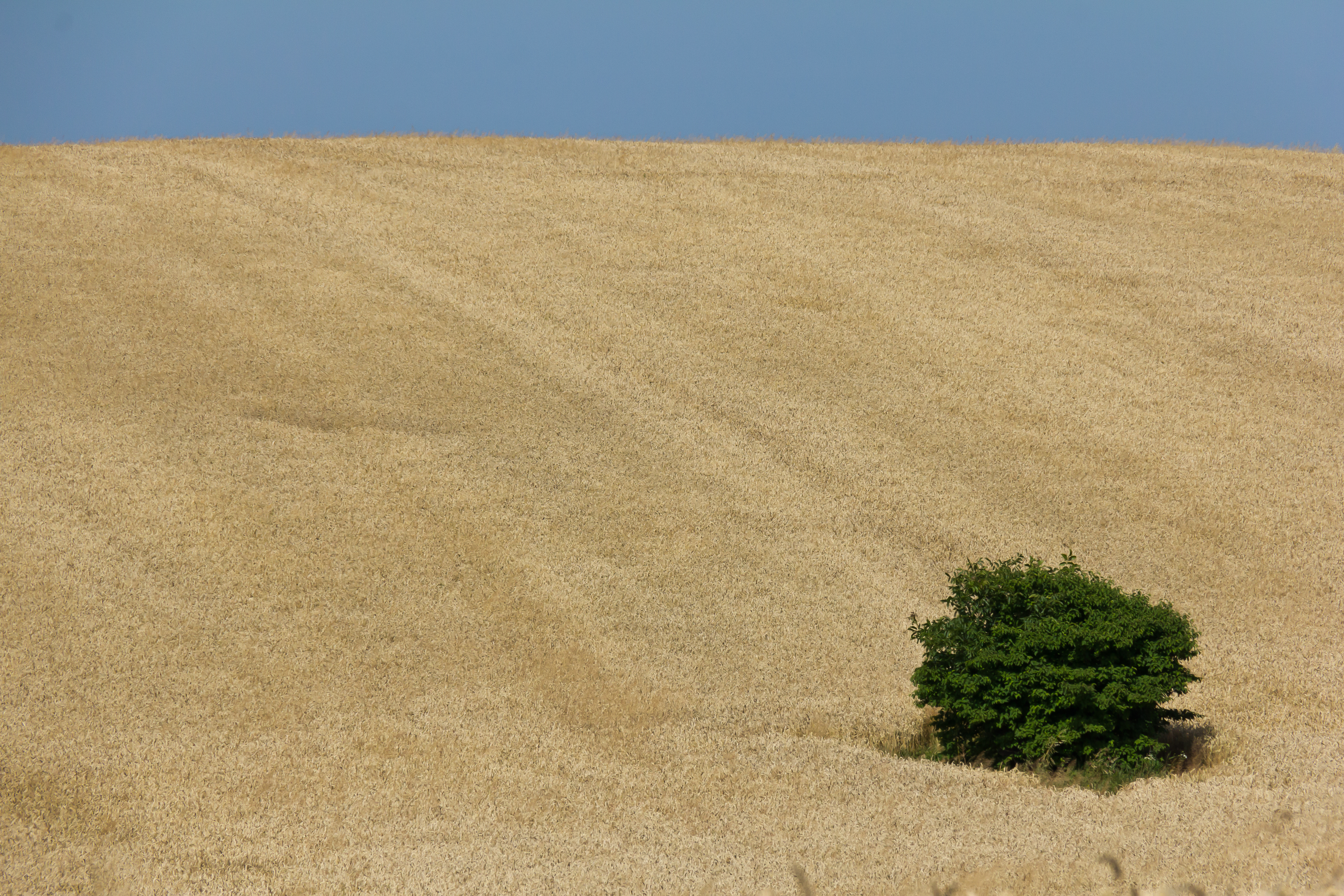 Wheat fields in midsummer (August) in Ukraine, Oblast Lviv